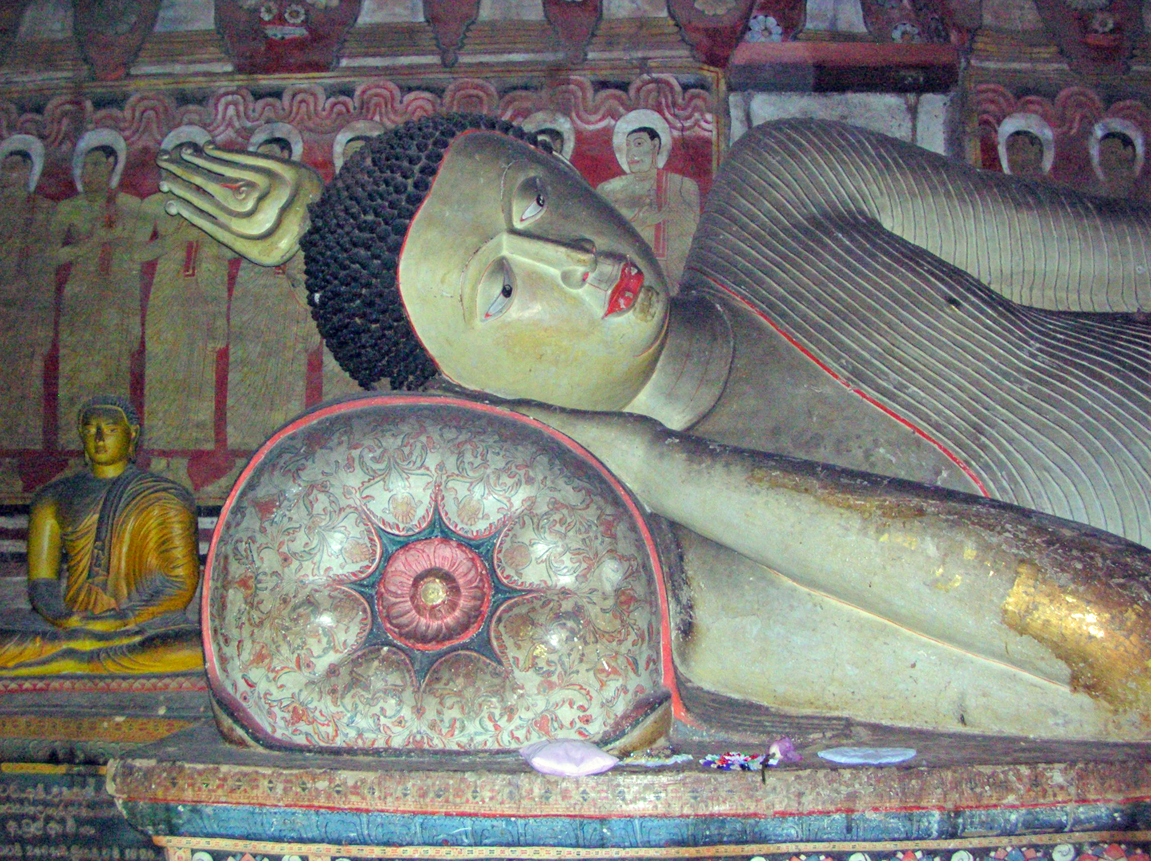 Reclining Buddha, Dambulla cave temple, Sri Lanka